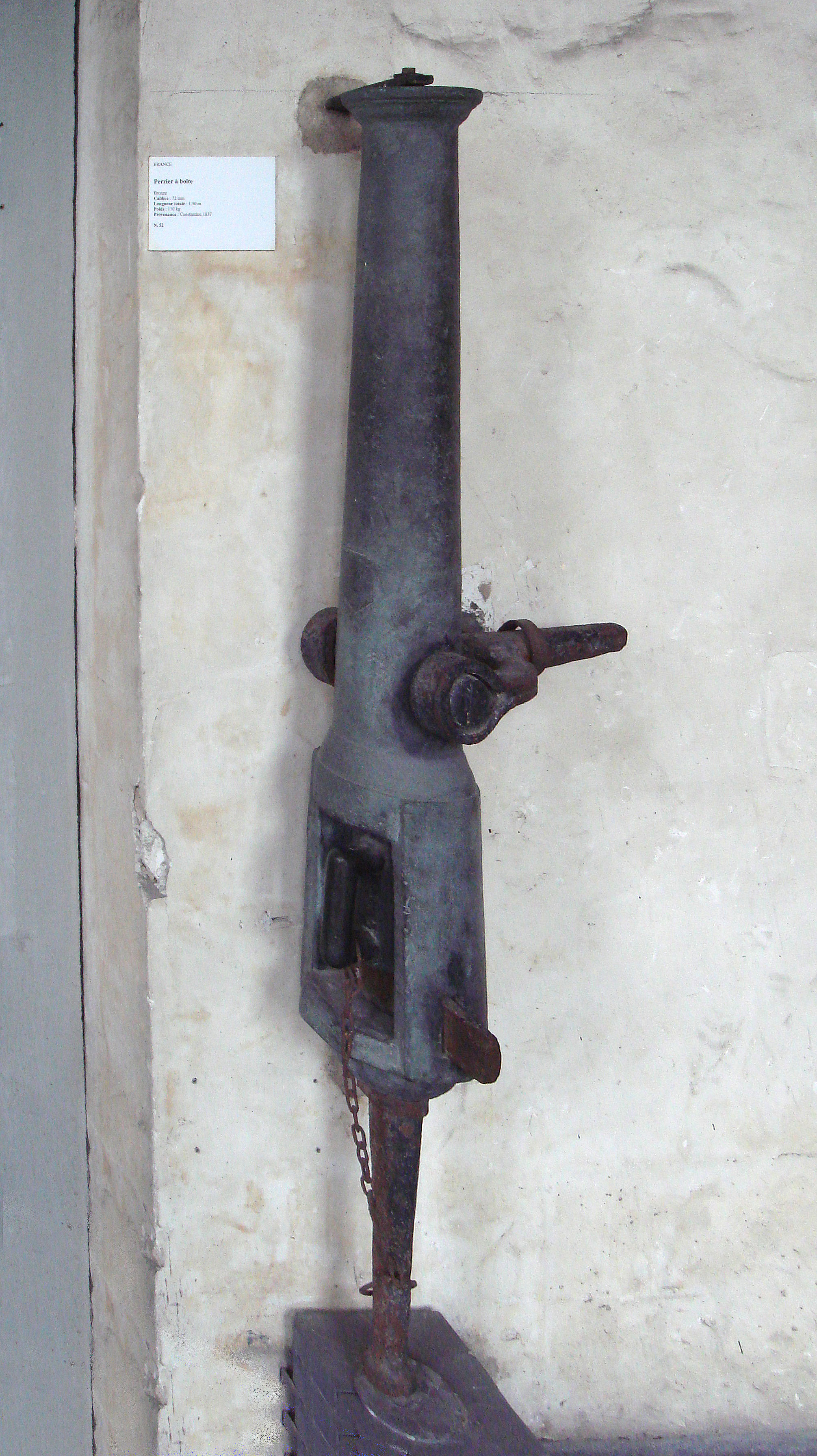 Perrier_a_boite_cal_72mm_length_140cm_weight_110kg_seized_in_Constantine_in_1837.